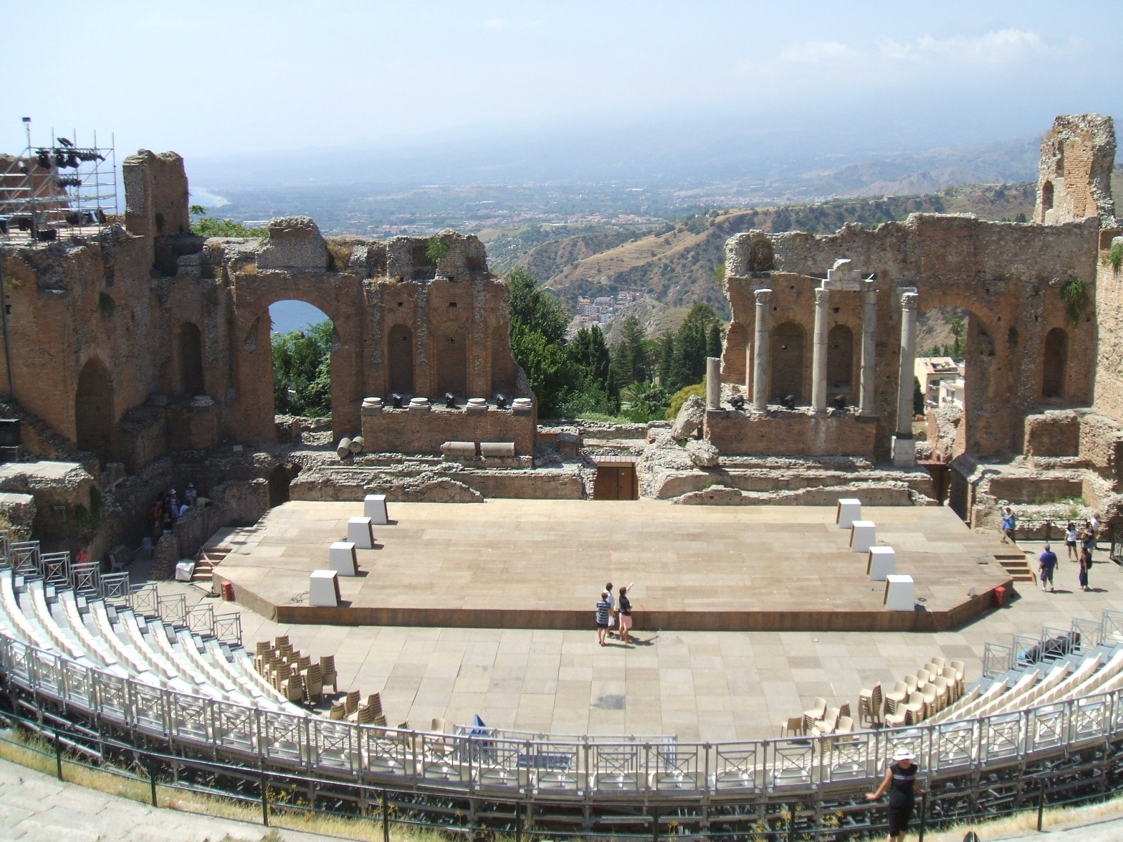 The Greek and Roman theater of Taormina is the second biggest theater of Sicily by his dimensions, the first one being the Syracuse Greek theater. Almost nothing is left of the first hellenistic theater. The Romans reconstructed most of the monument.